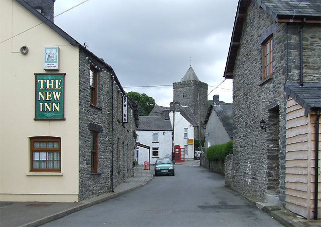 Llanddewi-Brefi Village, Ceredigion with Pub The New Inn